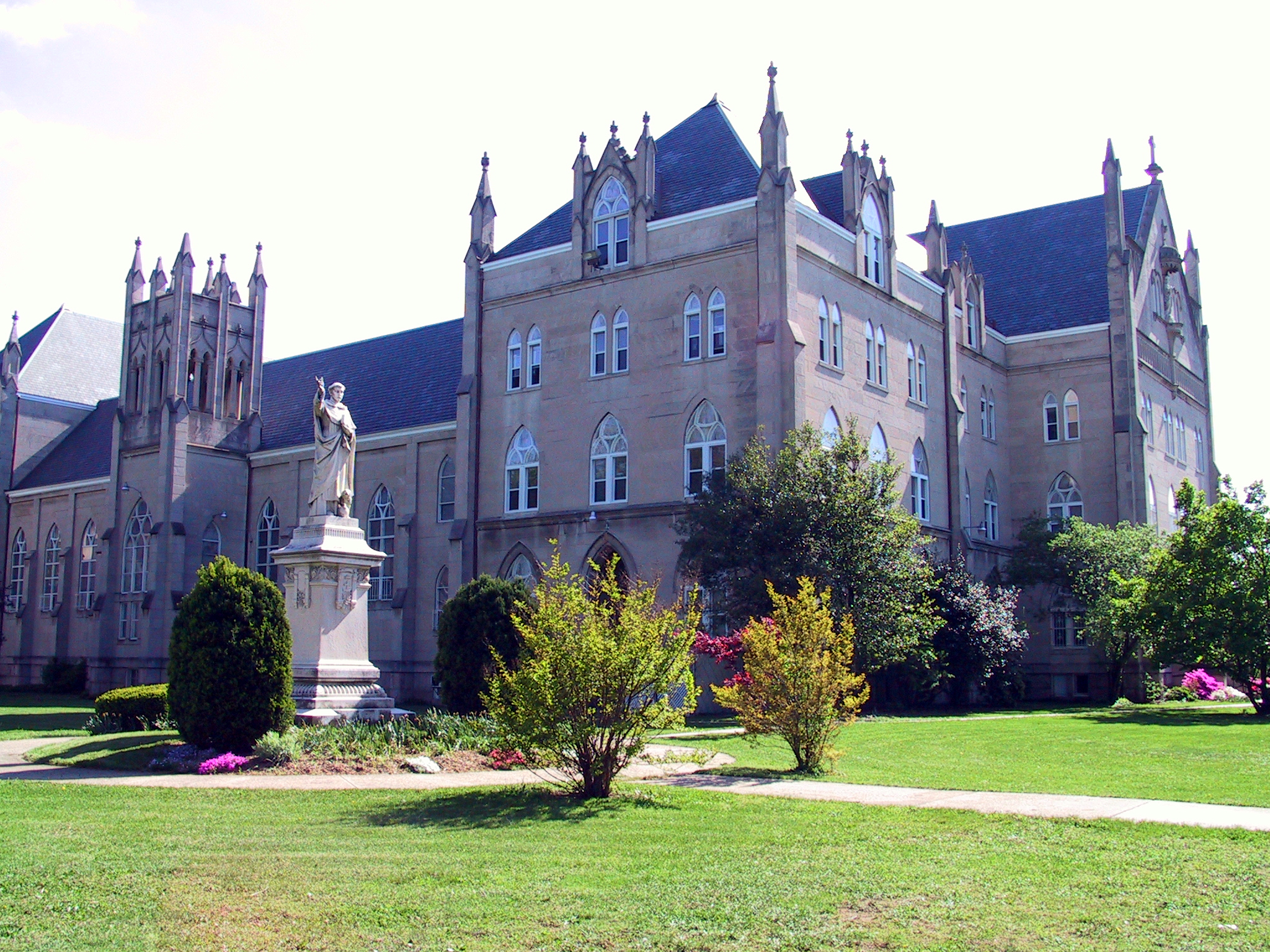 Dominican House of Studies